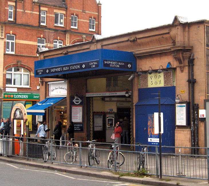 Shepherd's Bush underground station - Central Line (September 2006)